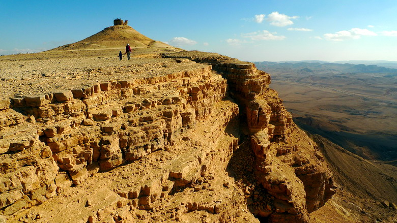 cliff near mitzpe ramon overlooking machtesh ramon-2010